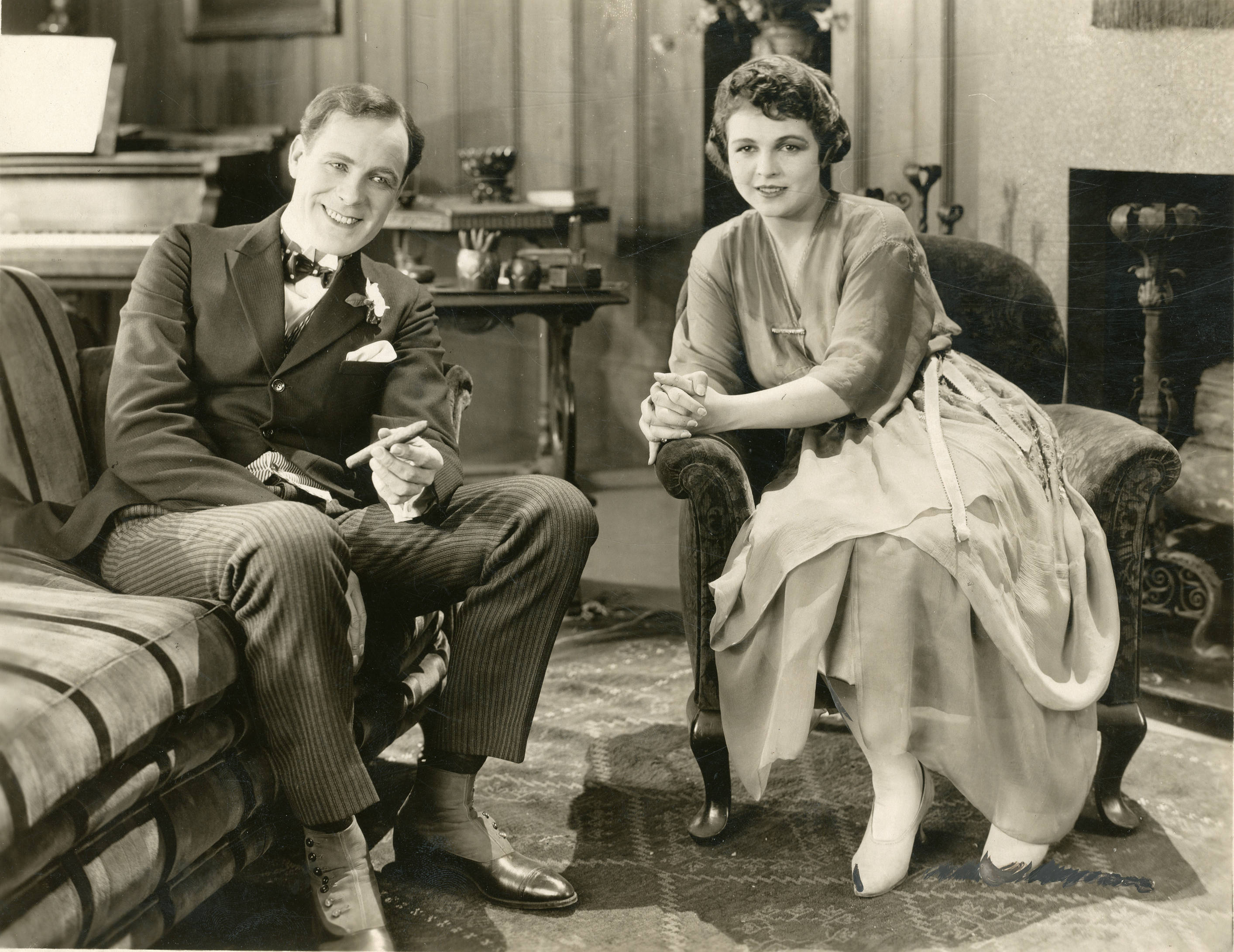 A scene from the American comedy film Scratch My Back (1920), which played at the Liberty Theater, Seattle. Includes T. Roy Barnes. Subjects: motion pictures, actors